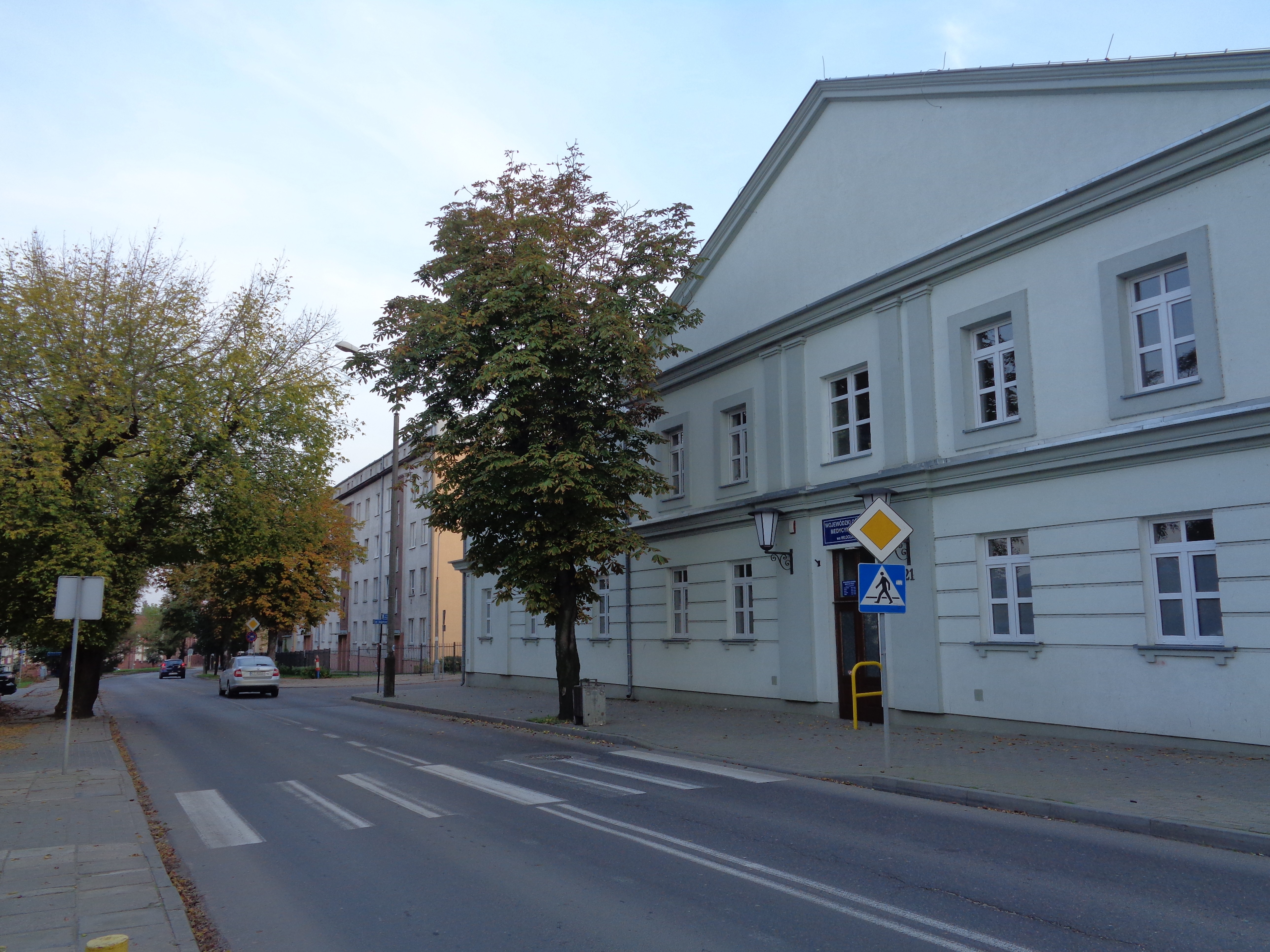 Former Saint Anthony hospital at Wyszyński street in Włocławek, after the rebuilt in 2013 year.